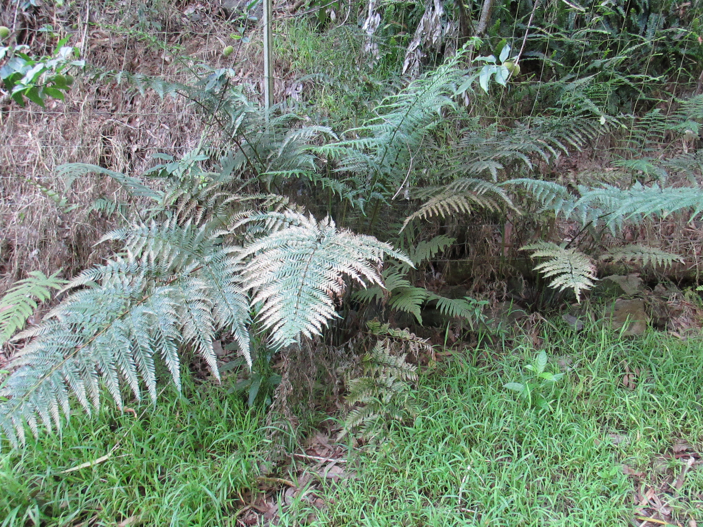 Pteris tremula (Australian brake) Habit at Hawea Pl Olinda, Maui, Hawaii. April 26, 2017 #170426-7983 - Image Use Policy